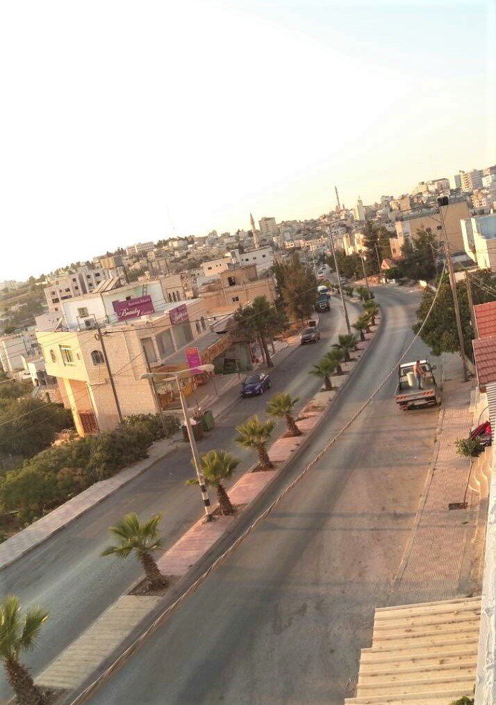 Hnanh street, Dura city.